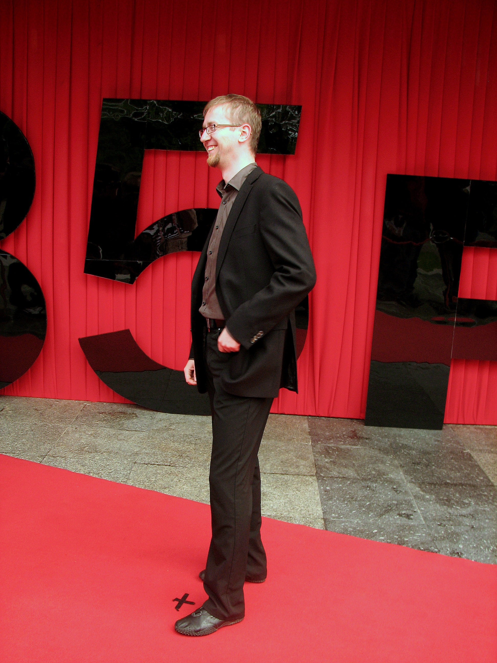 Tomasz Bagiński at opening of the XXXV Polish Film Festival in Gdynia 2010.